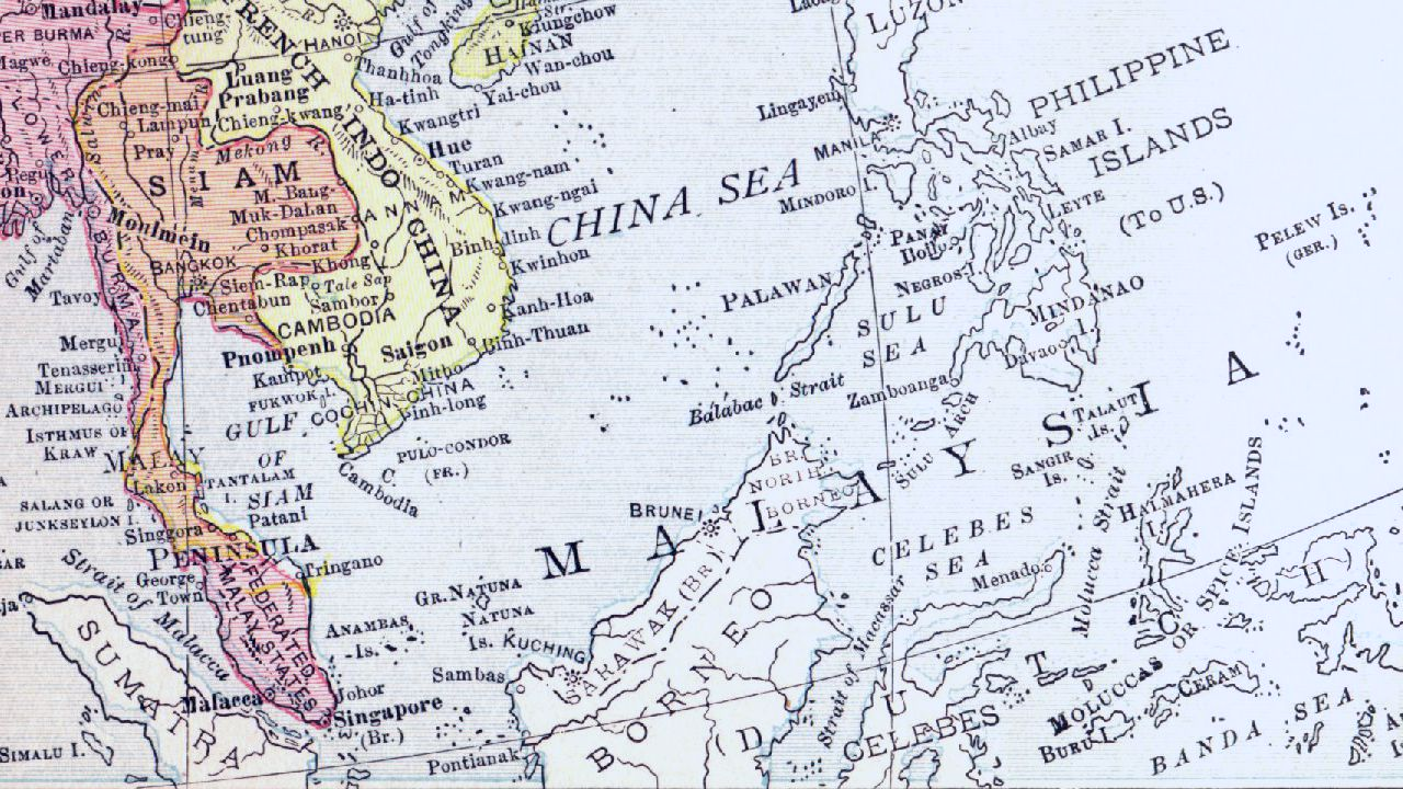 Map of Malaysia, circa 1914